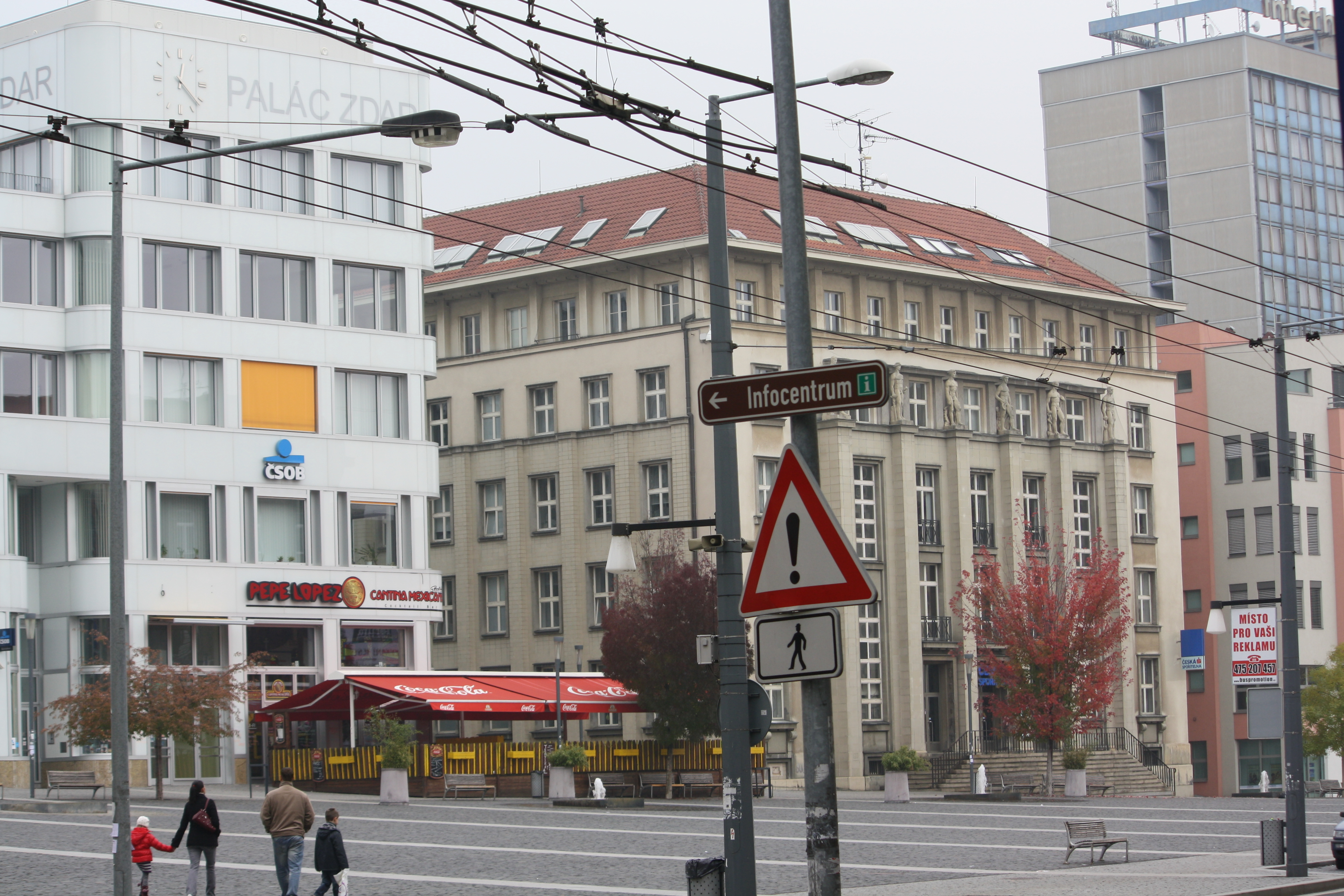 Market place in Ústi nad Labem/Czech Republic